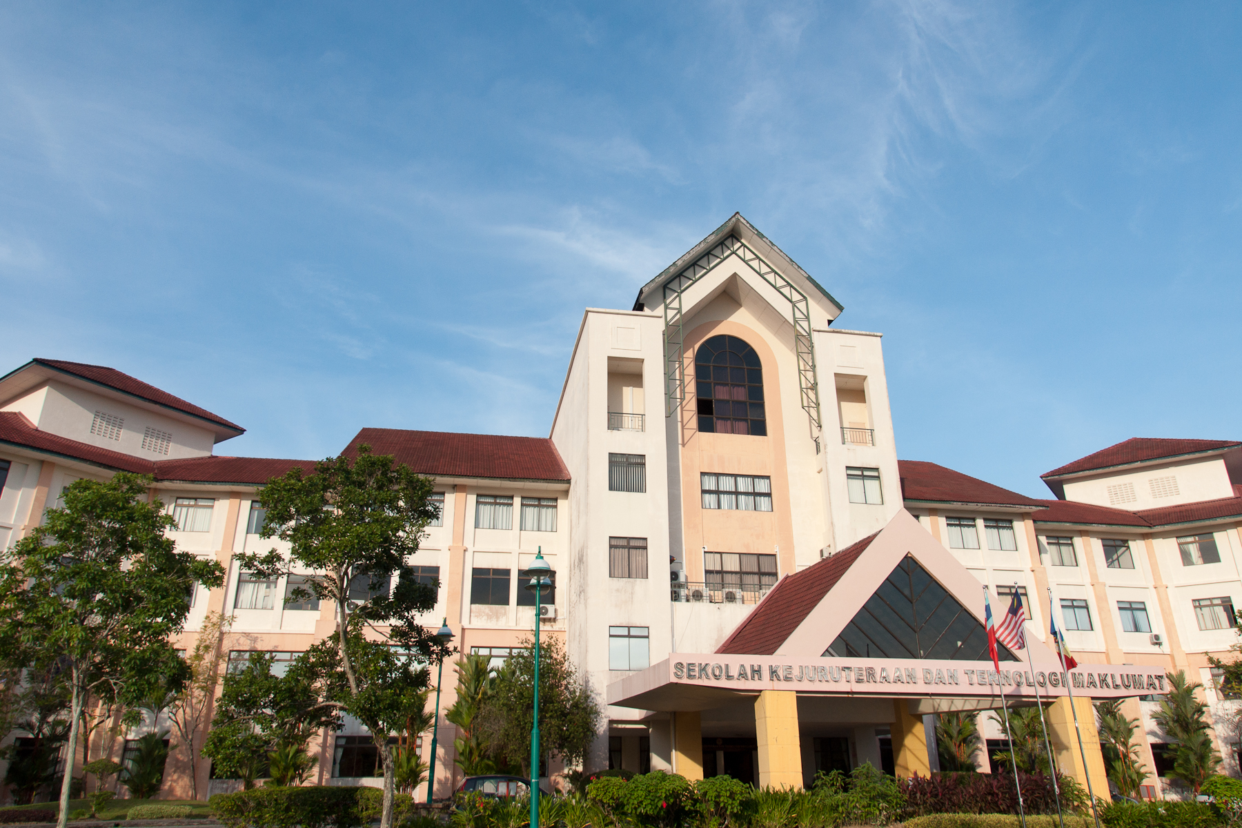 Universiti Malaysia Sabah (UMS), Faculty of Engineering and Information Technology